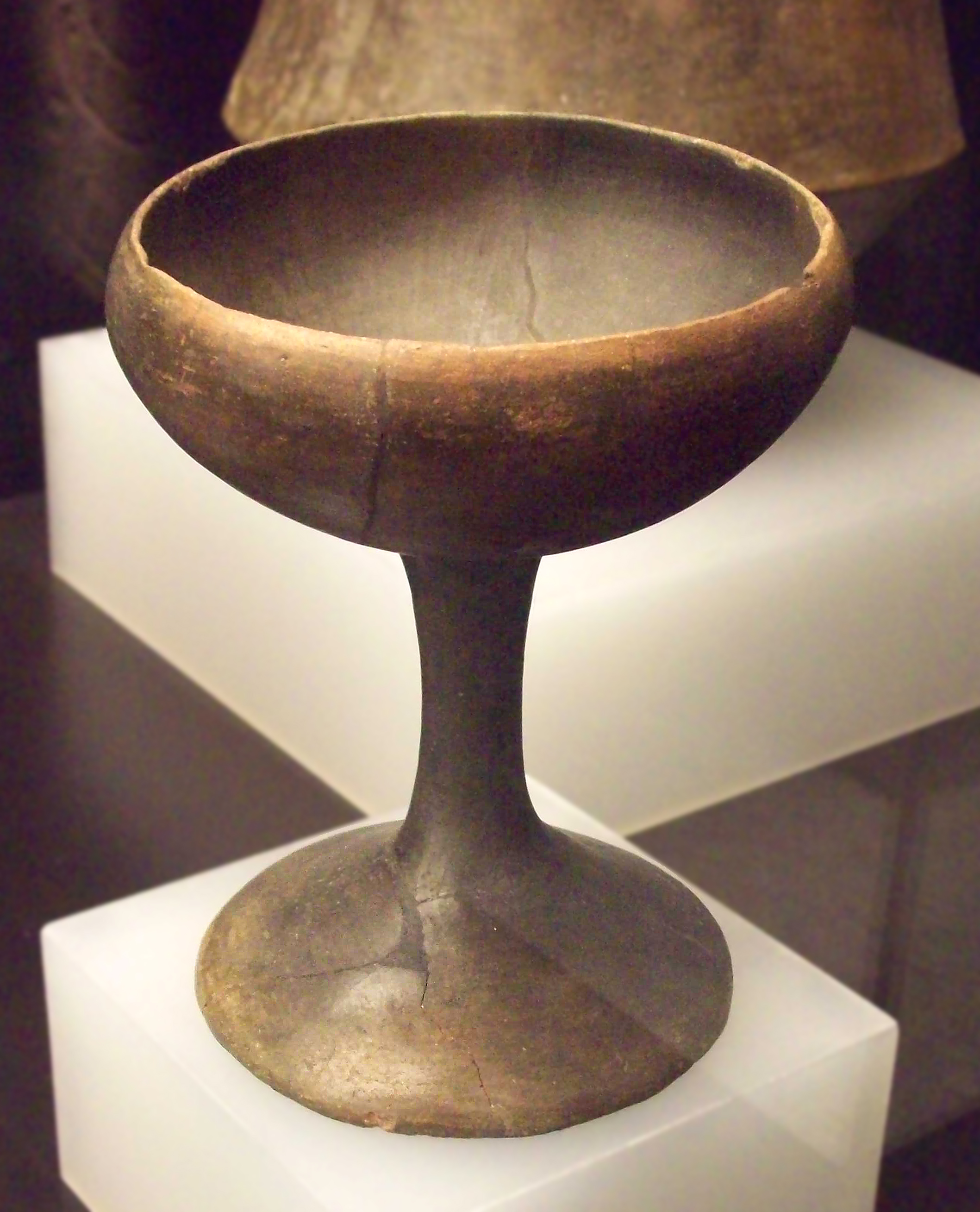 A goblet from the Argaric culture (Middle Bronze Age).